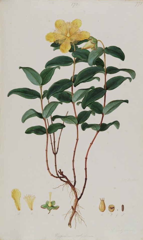 A digital image of a plate in John Sibthorp's Flora Graeca, titled Hypericum_calycinum, which is an early work of the esteemed botanical illustrator Ferdinand Bauer.